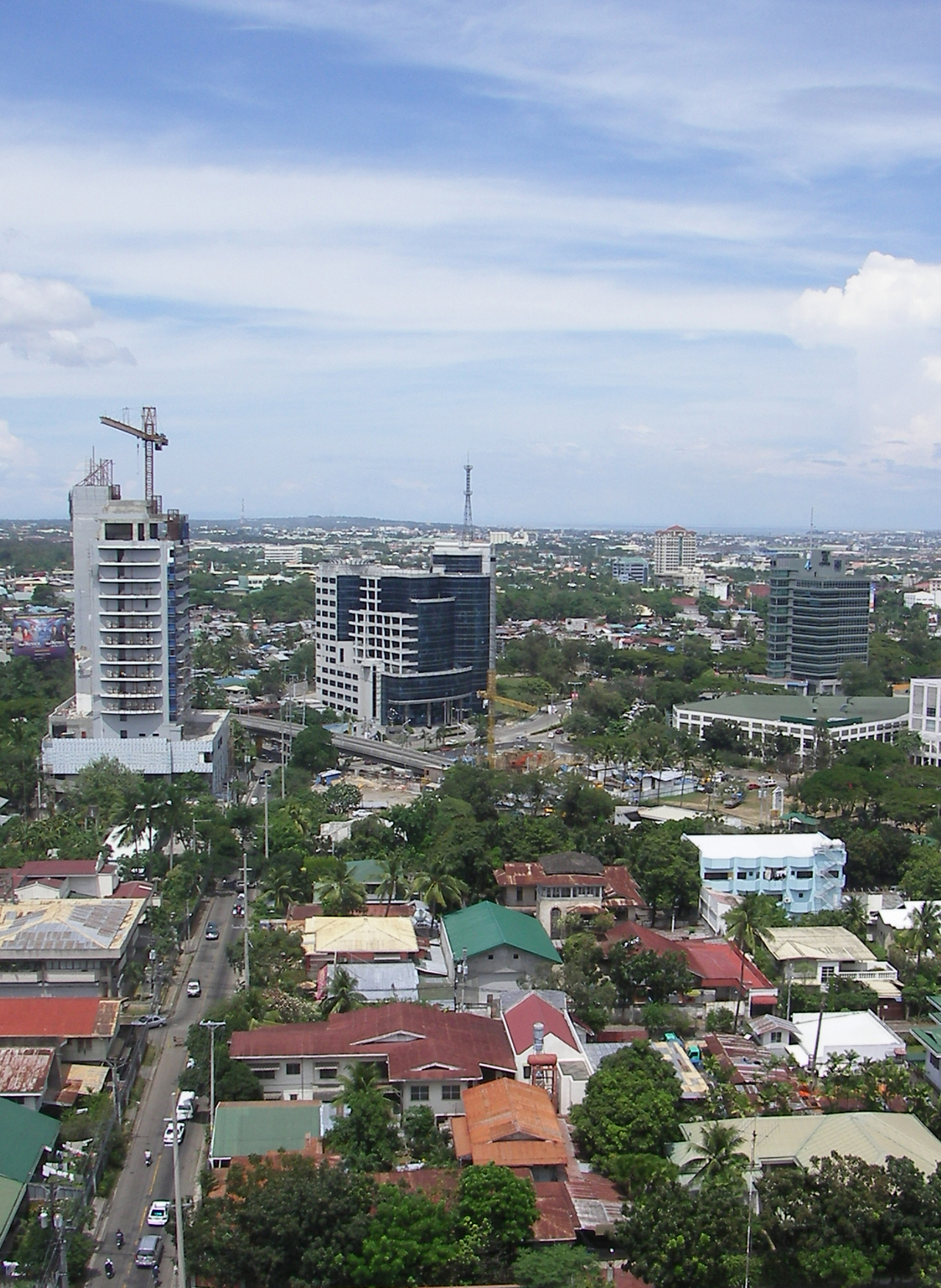 Cebu-City, Philippines; Developing Area near Cebu Business Park, April 2006